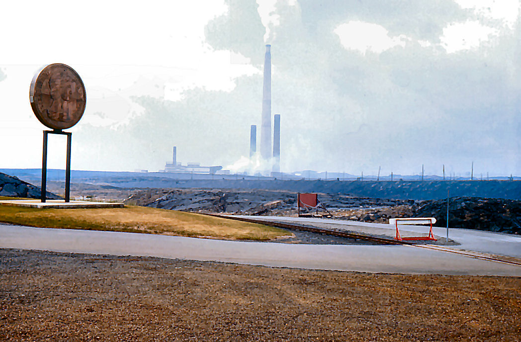 The world's tallest smokestack in Sudbury, Ontario, Canada in 1976.